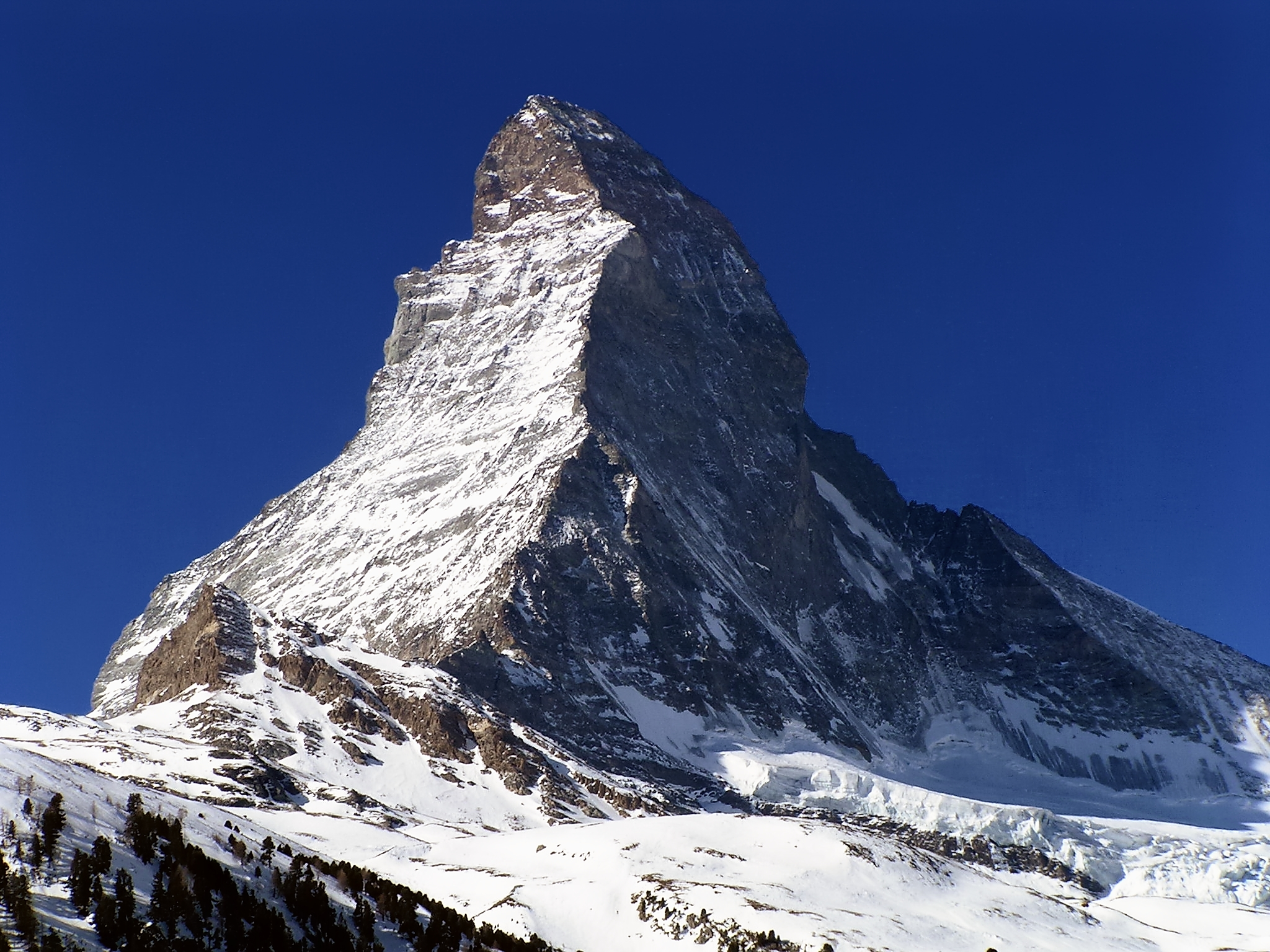 East and North side of the Matterhorn, photograph taken from the village of Zermatt